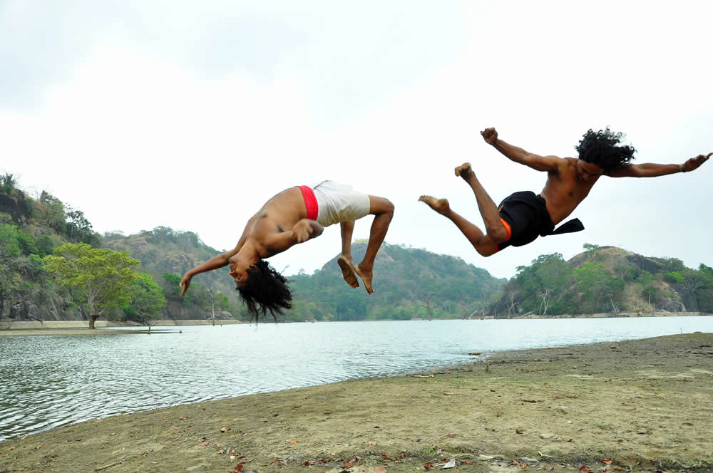 flying kick in angampora native martial art.